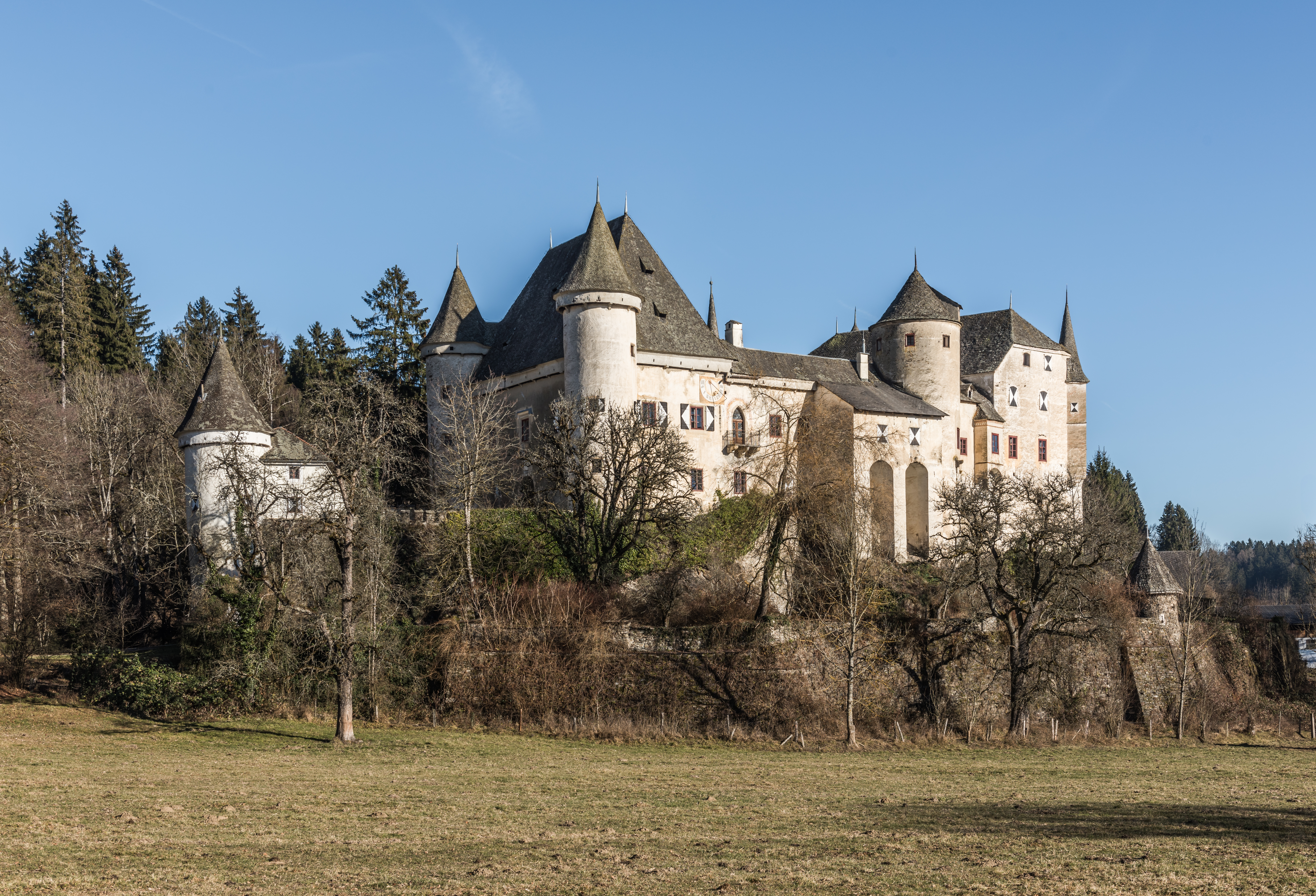 Castle Frauenstein, municipality Frauenstein, district Sankt Veit, Carinthia, Austria, EU